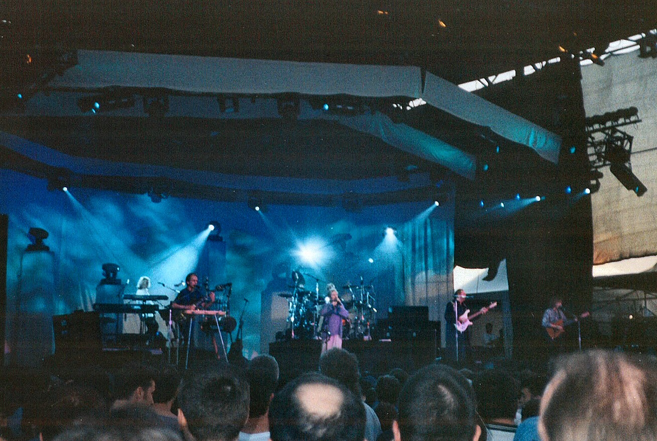 Yes, live performance in Montreal, Canada, June 19, 1998.